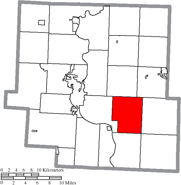 Map of the municipal and township boundaries of Muskingum County, Ohio, United States, as of the 2000 census, with the location of Salt Creek Township highlighted. Township borders are shown only in unincorporated areas in order to differentiate incorporated and unincorporated areas more clearly.